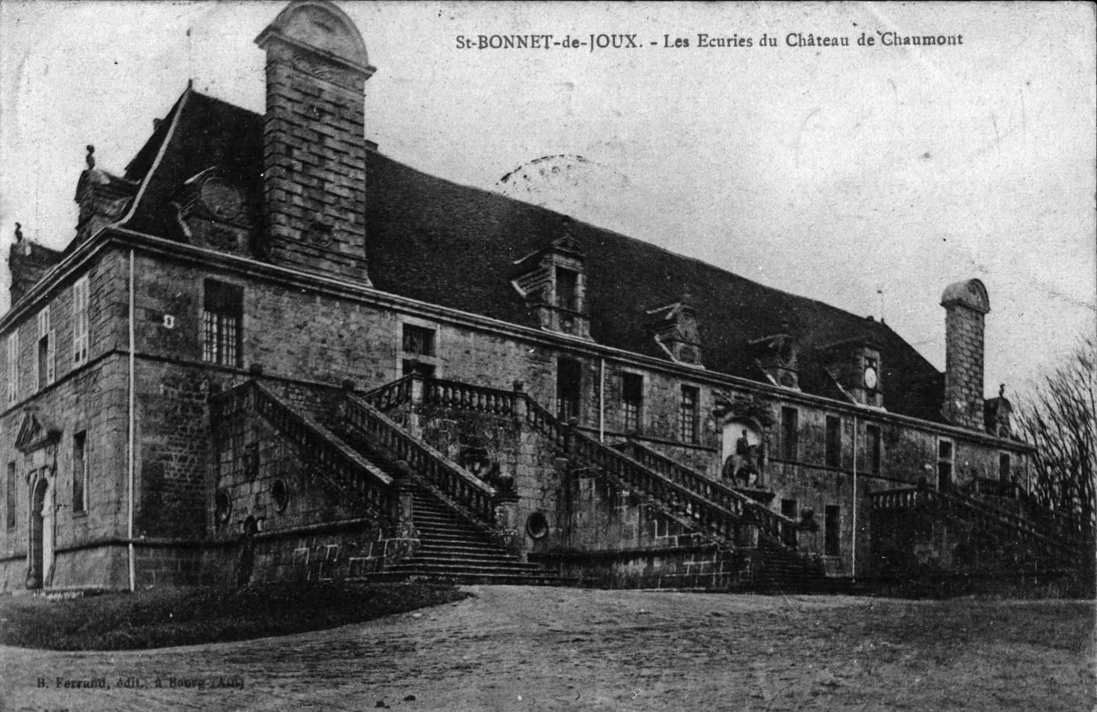 Postcard photo of the southeast facade of the stables of the Château de Chaumont-la-Guiche in Saint-Bonnet-de-Joux, France; designed by the architect François Blondel, built 1648–1652 by the local mason and entrepreneur François Martel .